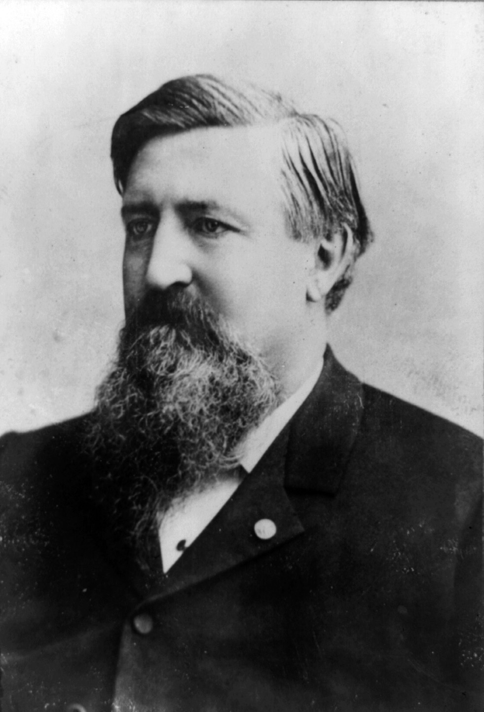 James T. Johnston, U.S. Congressman from Indiana